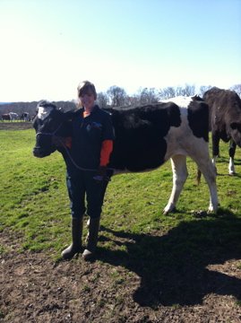 This is the show heifer that I showed in Spring 2012.